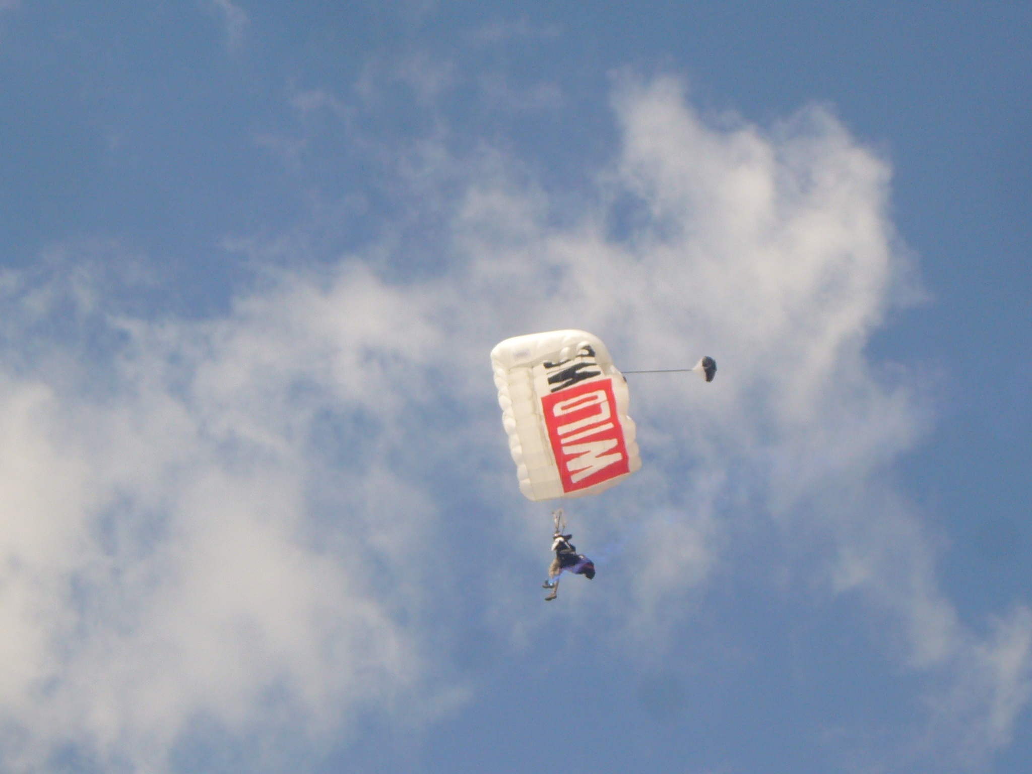 Aerosport airshow 2013